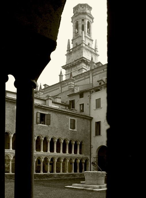 Verona cathedral: the cloister and the belfry